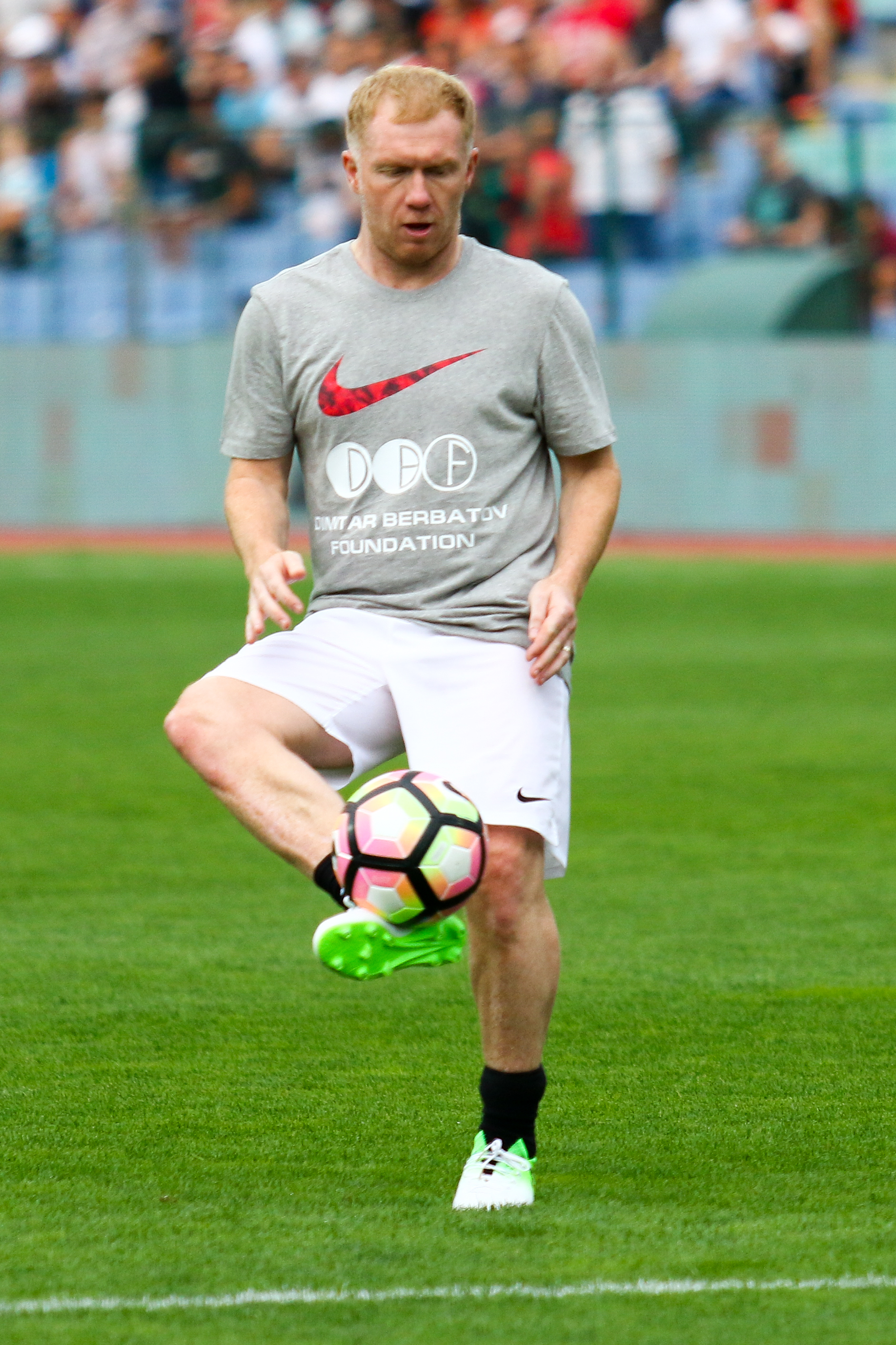 Paul Scholes (born 16 November 1974) is an English retired footballer who played his entire professional career for Manchester United. He is currently co-owner of Salford City and a television pundit for BT Sport. He is the most decorated English footballer of all time, and one of the most successful footballers in history, having won a total of 25 trophies, featuring 11 Premier League titles and two Champions League titles